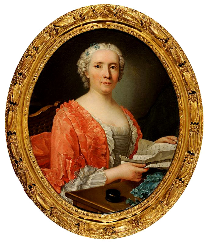 Marie Louise Julie de la Rivière (1737-1770), mother of the marquis de LaFayette